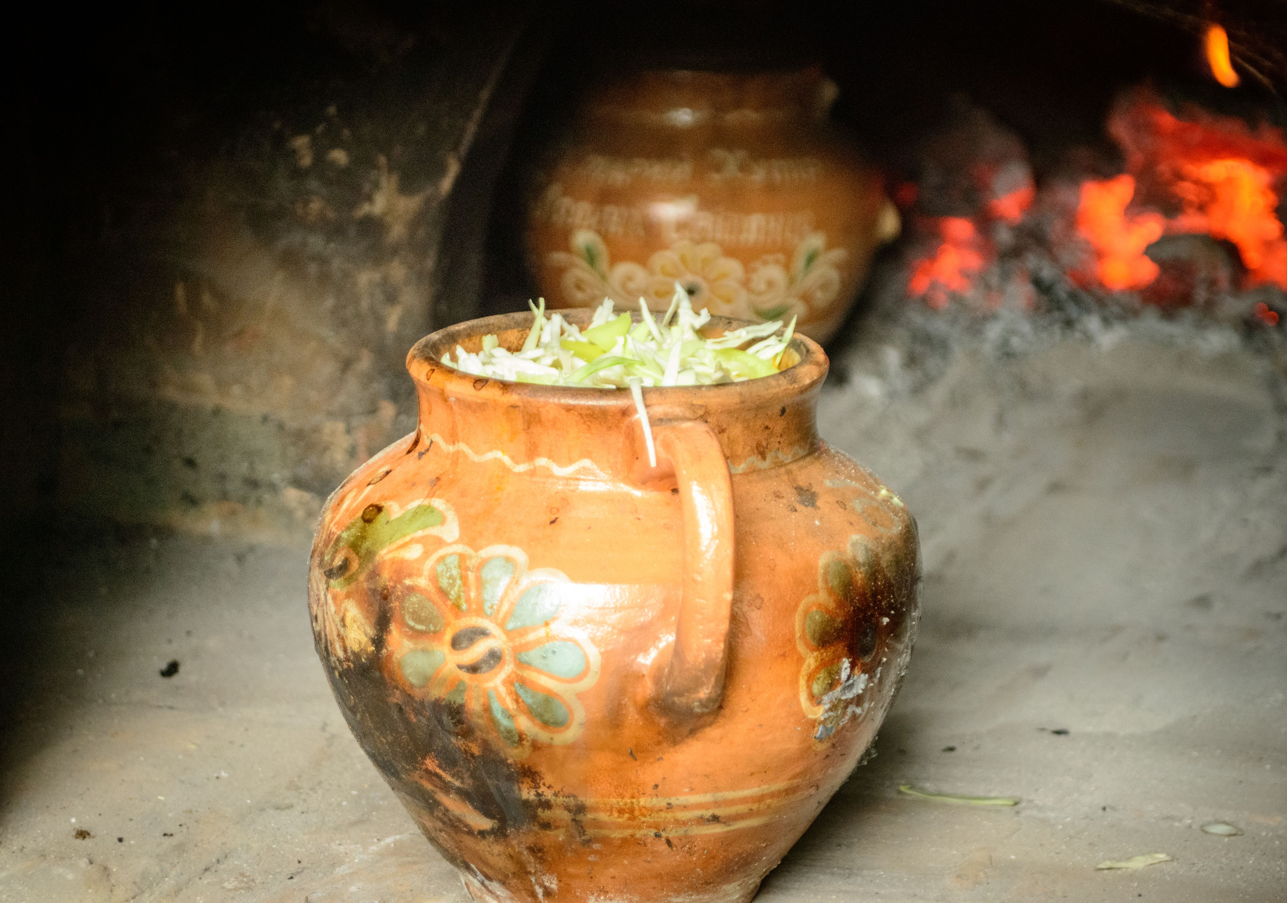 Borsch. Wikiexpedition to Fest "Borschyk in clay pot". Poltava region